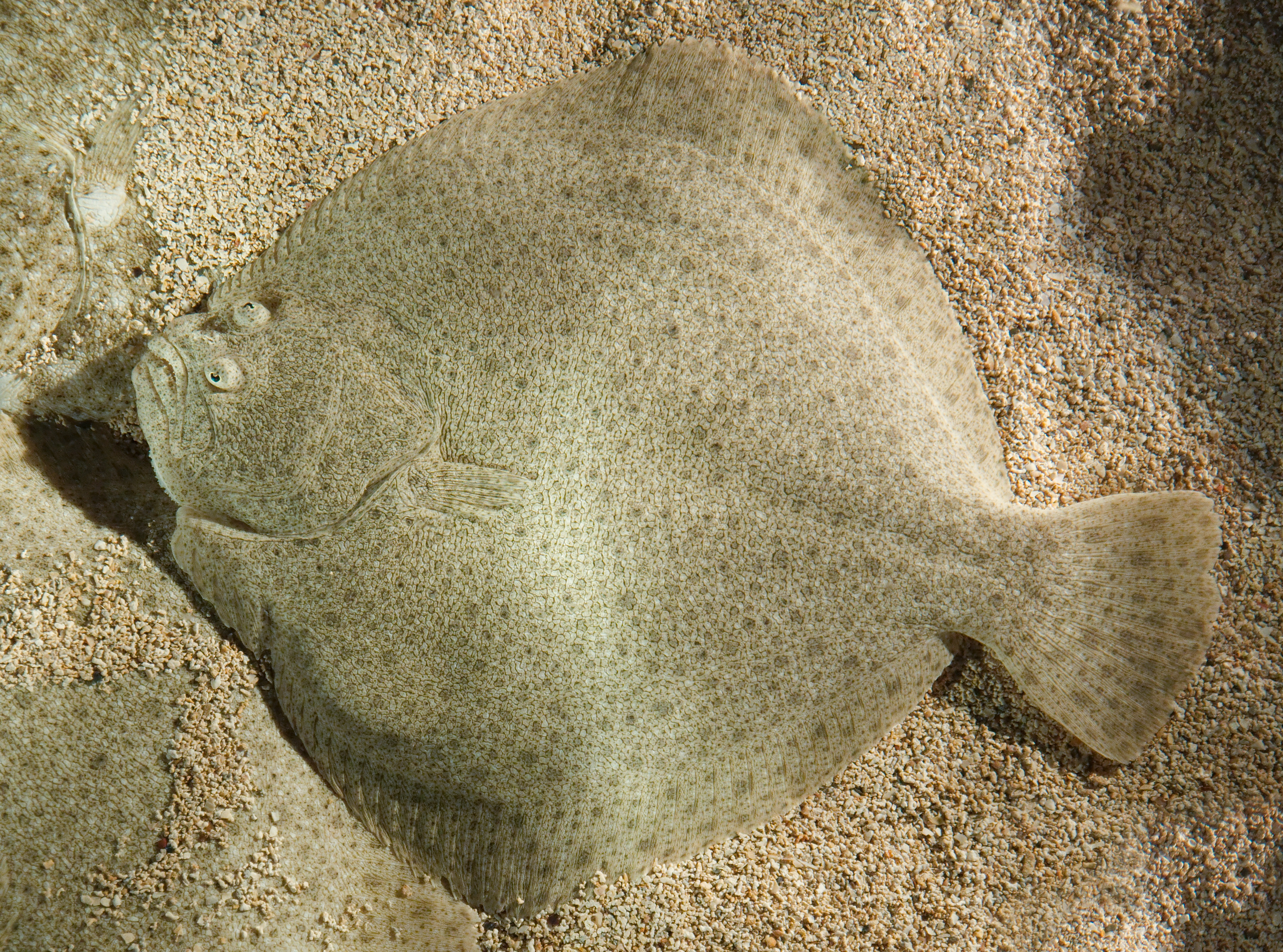 Turbot in aquarium Paradisio park (Belgium)